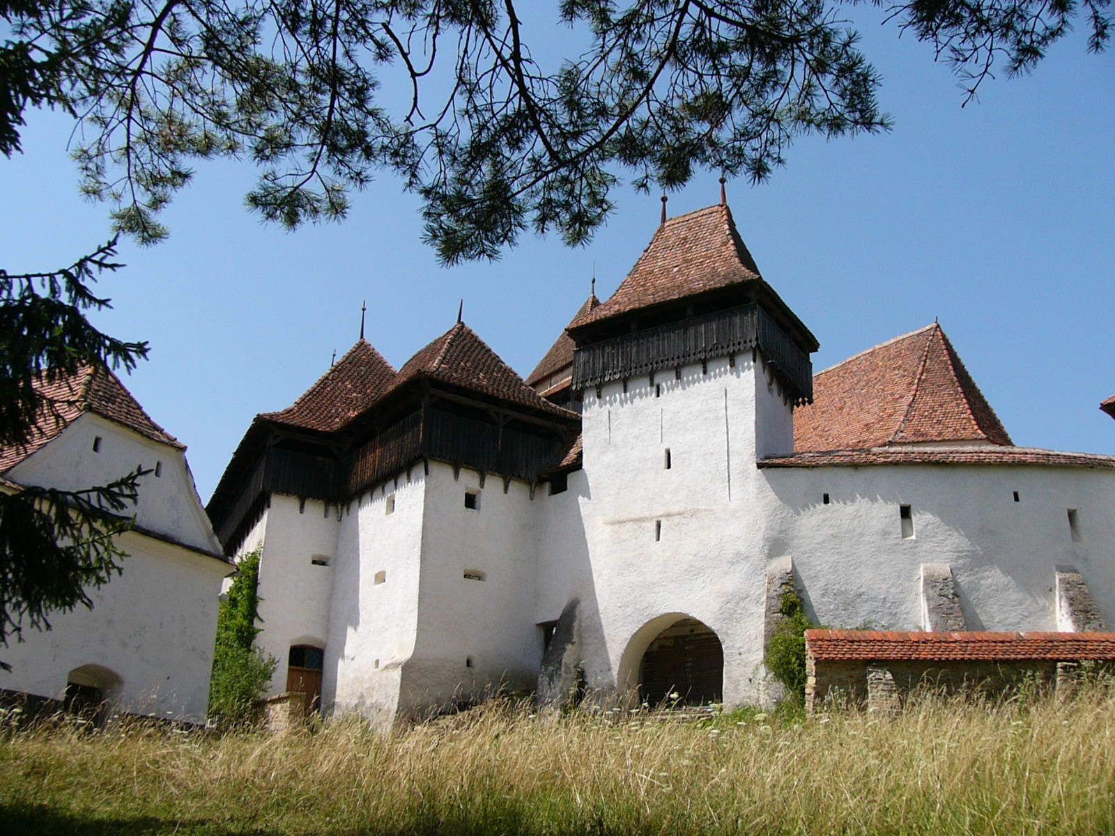 Fortified church of Viscri in Transylvania, a UNESCO World Heritage Site.